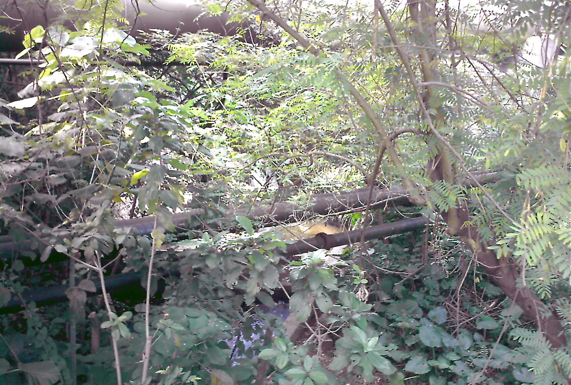 Fortress fully covered Siu Sai Wu reservior, Kowloon Tong 中文（香港）: 九龍塘筆架山小西湖：被叢林包圍的下遊池塘。